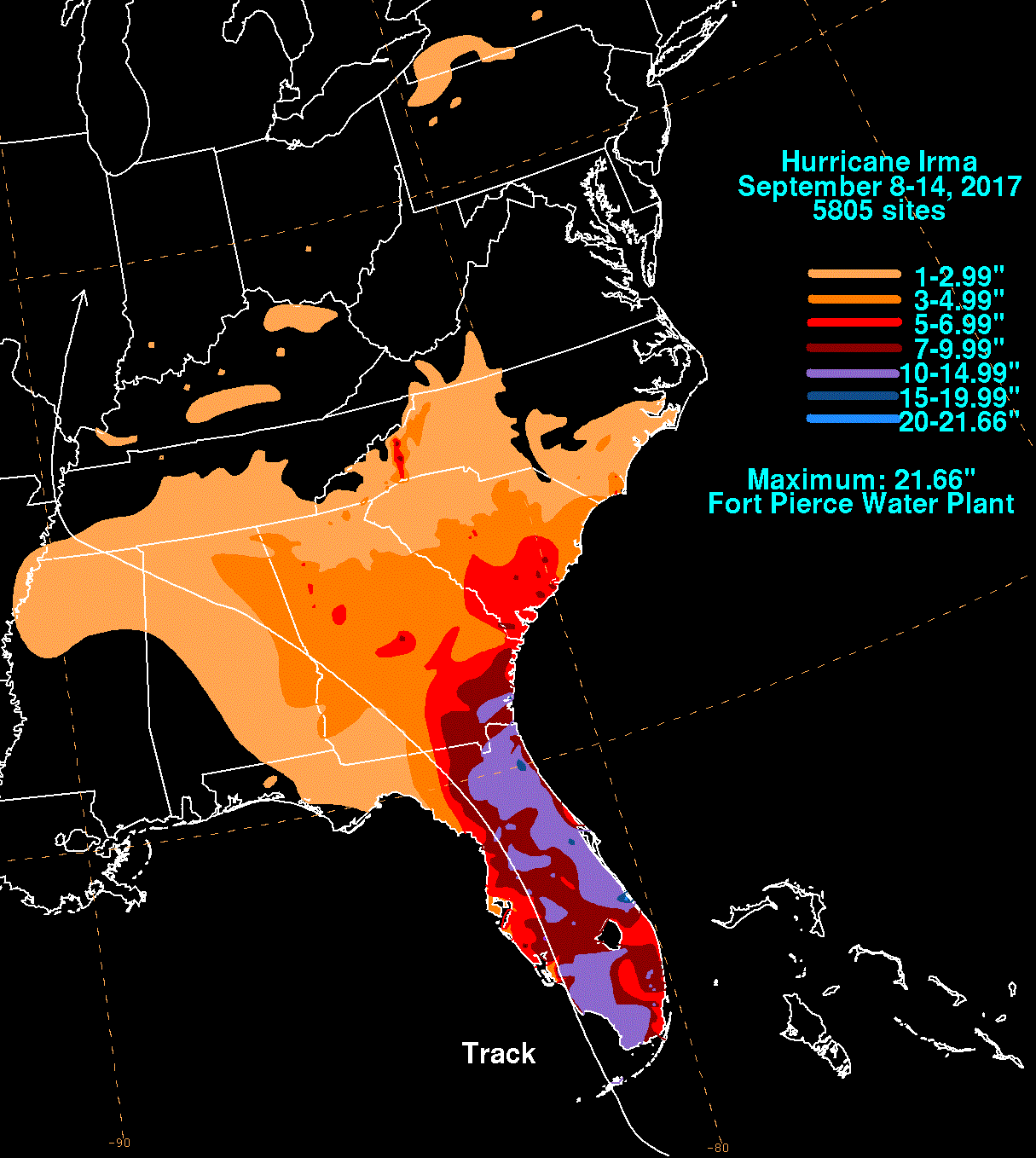 Map of rainfall totals associated with Hurricane Irma (or its remnants) in the United States